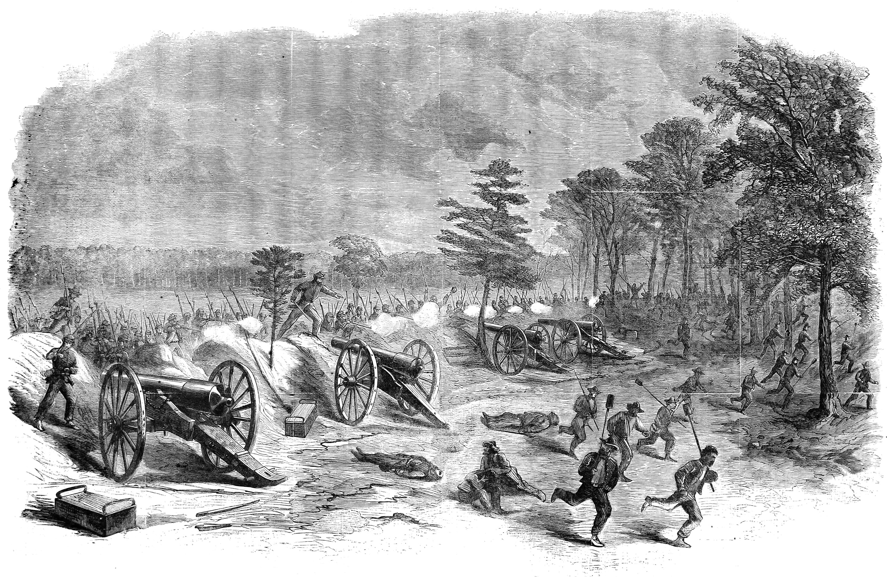 Image captioned "General Grant's Campaign - Capture of Four Twenty-Pound Parrot Guns By Miles's Brigade, Barlow's Division, July 27, 1864." (image cropped and cleaned)